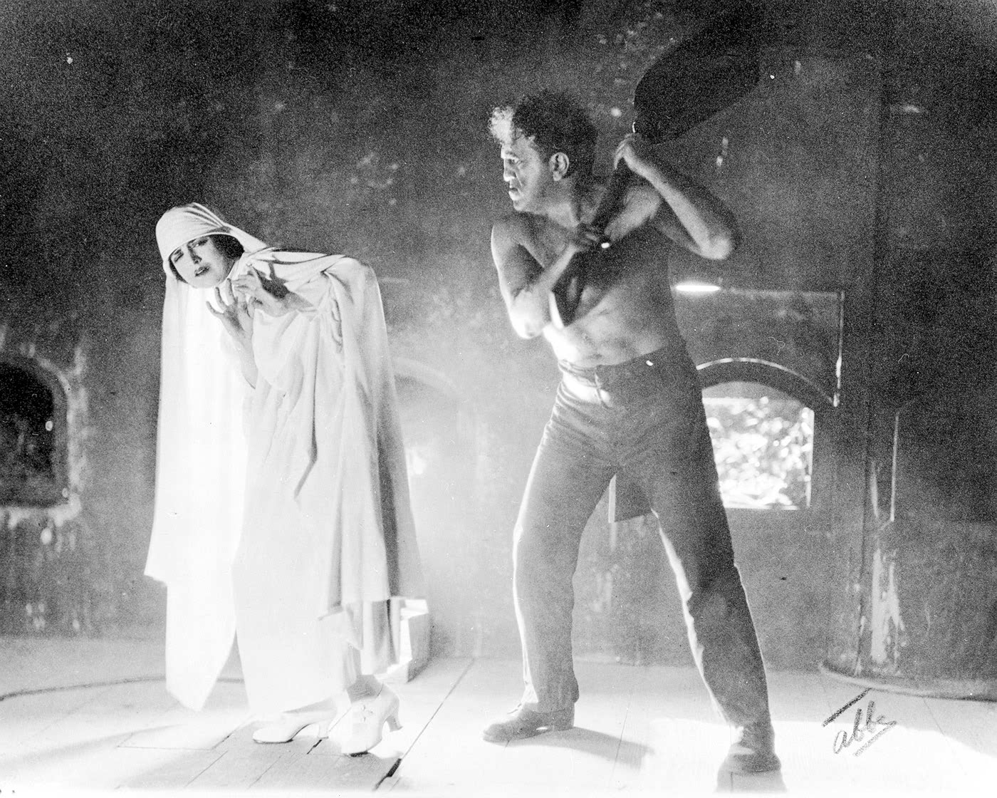 Black and white portrait of actress Carlotta Monterey O'Neill in a Plymouth Theater production of Eugene O'Neill's The Hairy Ape. Monterey later became O'Neill's wife. Image courtesy of the Beinecke Rare Book & Manuscript Library, Yale University.